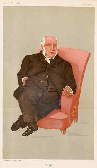 Caricature of Mr Henry Wiggin M.P.. Caption read "Wiggin!".